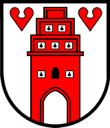 Coat of Arms of Friesoythe